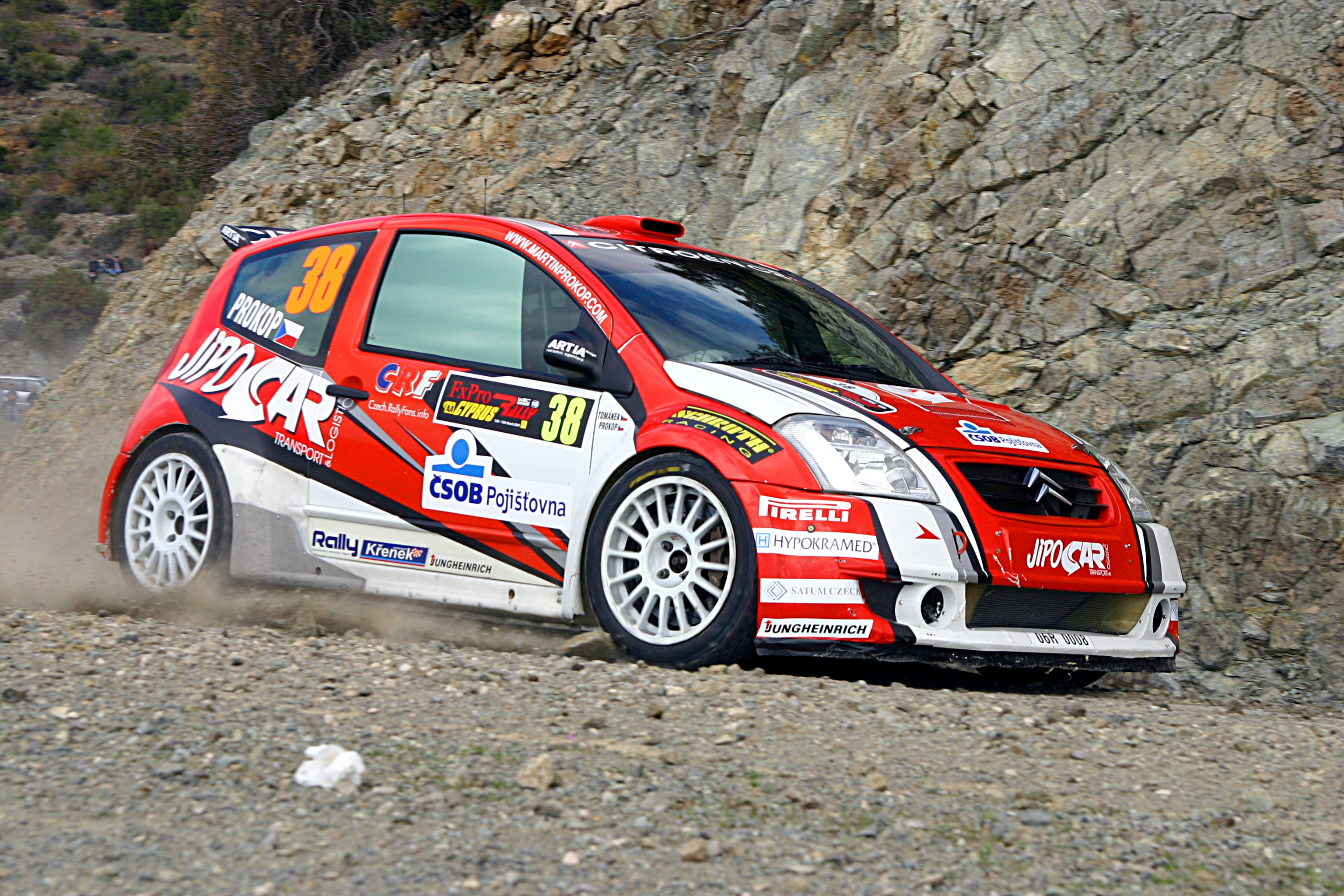 Martin Prokop driving his Citroën C2 S1600 during the shakedown of the 2009 Cyprus Rally.